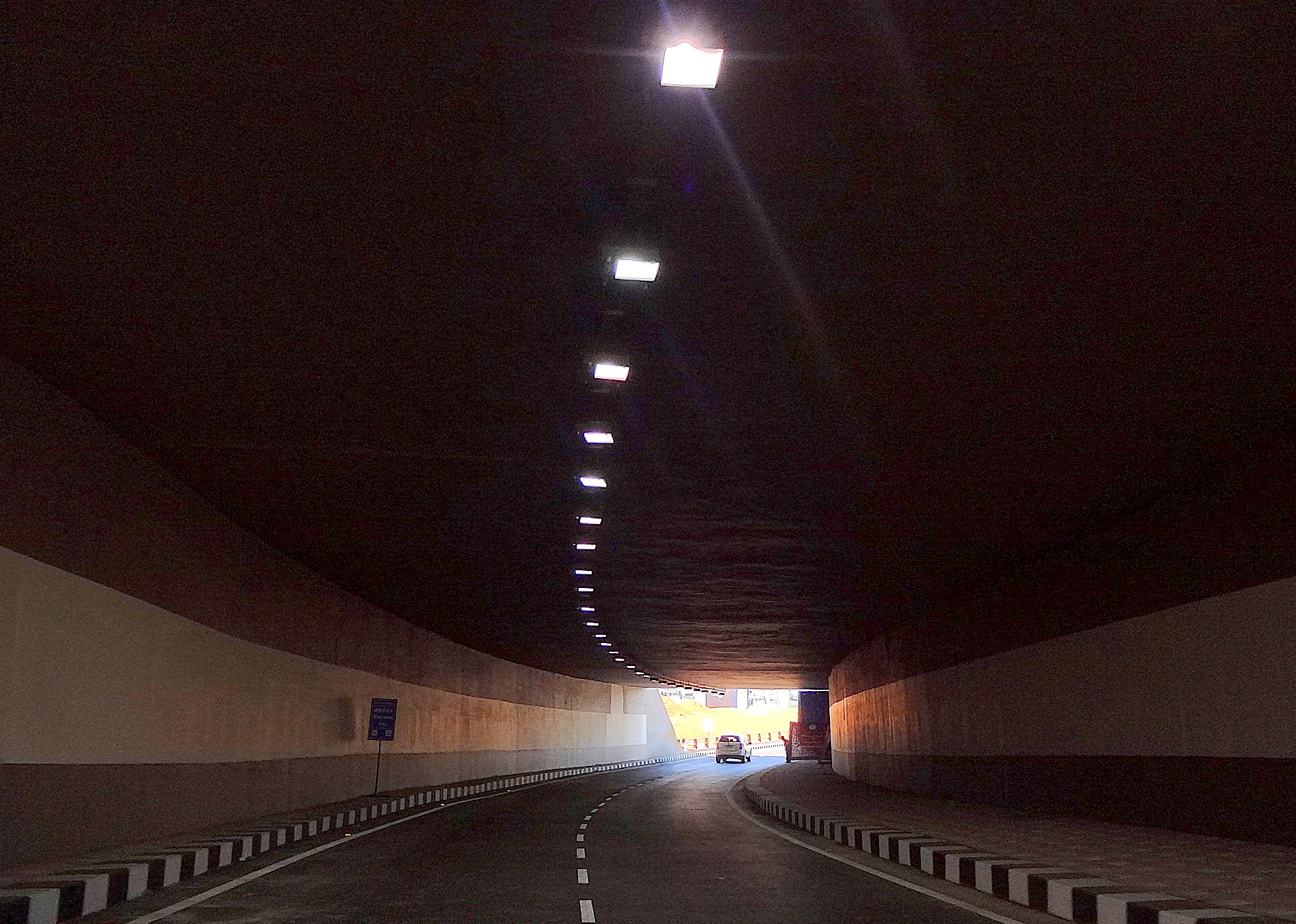 Exit Tunnel from Western Expressway